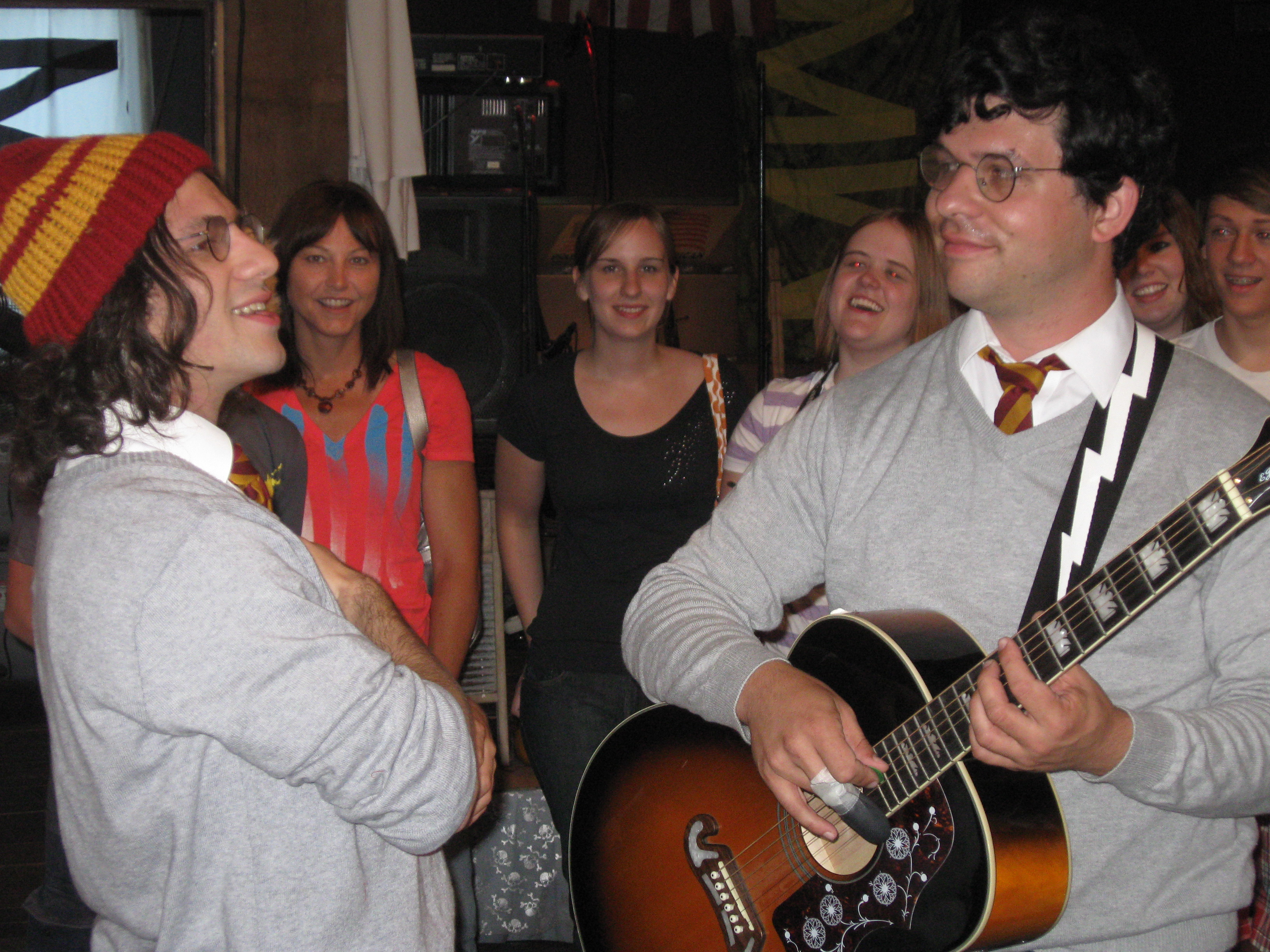 Harry and the Potters performing at the Most Wanted Fine Arts Gallery, Pittsburgh, PA, June 30, 2010.